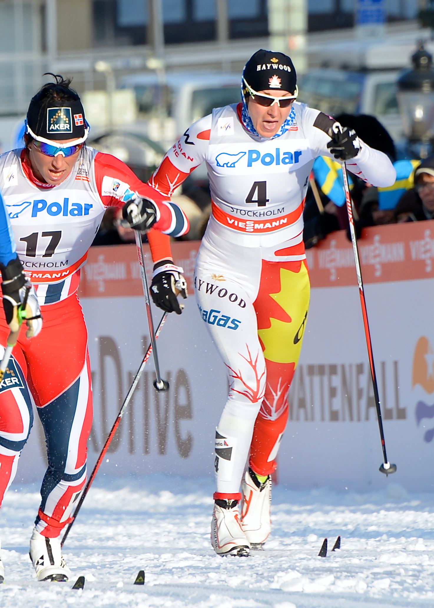 Daria Gaiazova at Royal Palace Sprint in Stockholm March 20, 2013